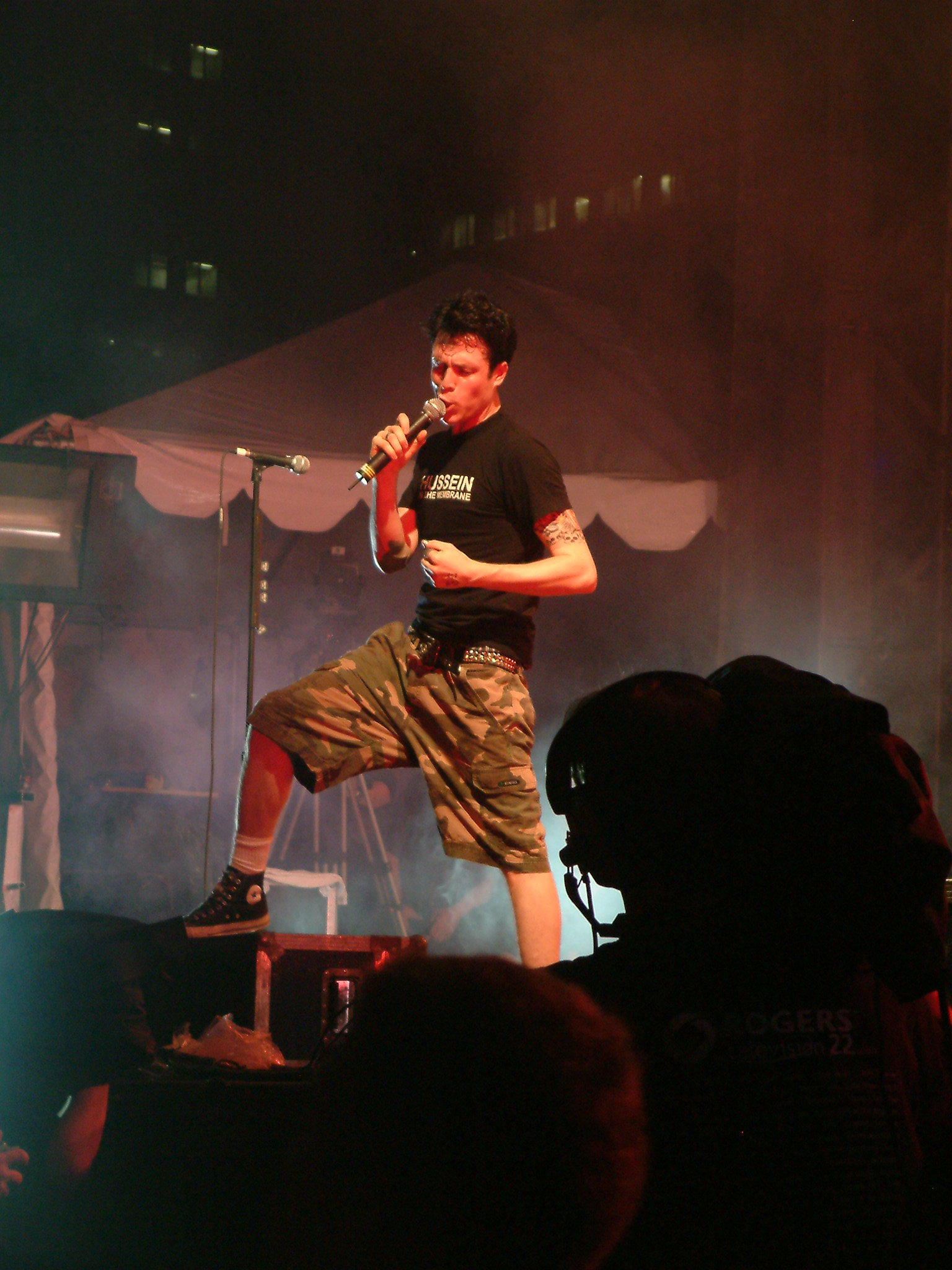 Sum 41 July 7'th 2003 Ottawa Bluesfest ottawa-bluesfest2003 "Sum 41"